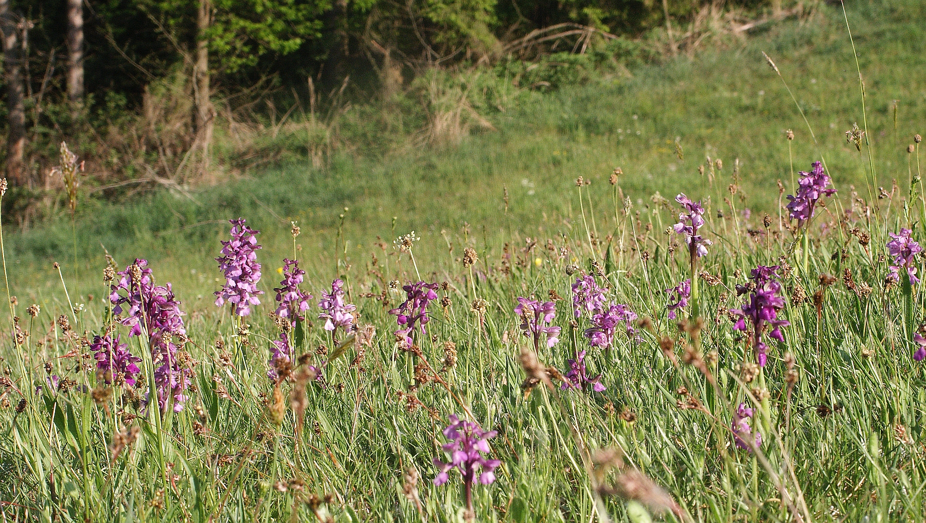 Orchis morio, Virngrund, Germany